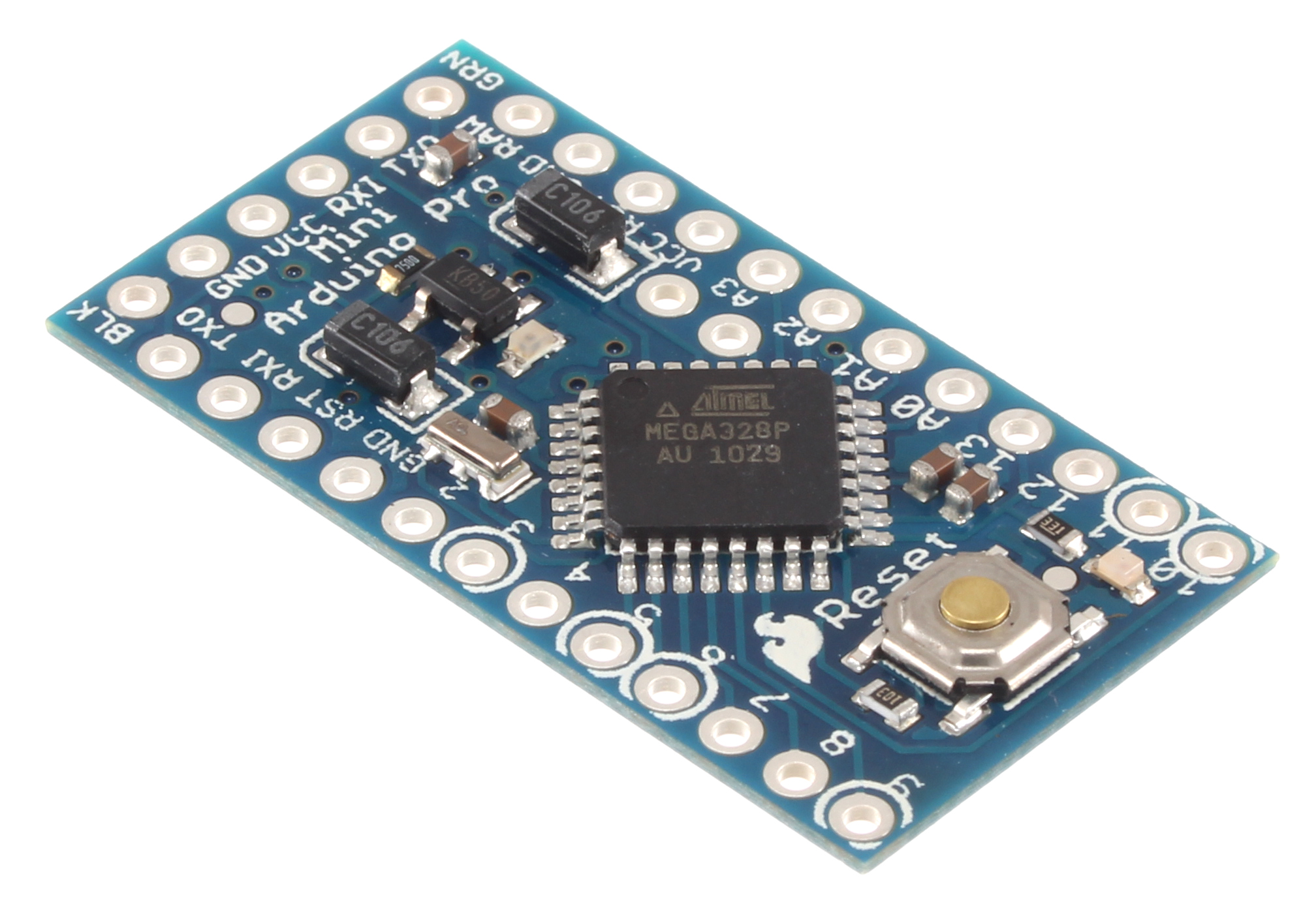 Finding the traditional USB Arduino a bit too big? This board includes everything the larger board does (except the USB to Serial portion) and does so in 1/6th the space (18 x 33mm). With the reduced size and cost it makes slipping an Arduino into almost anything possible. It also comes with the headers unpopulated letting you either solder in headers (for use in a breadboard) or your own wires directly to the board.